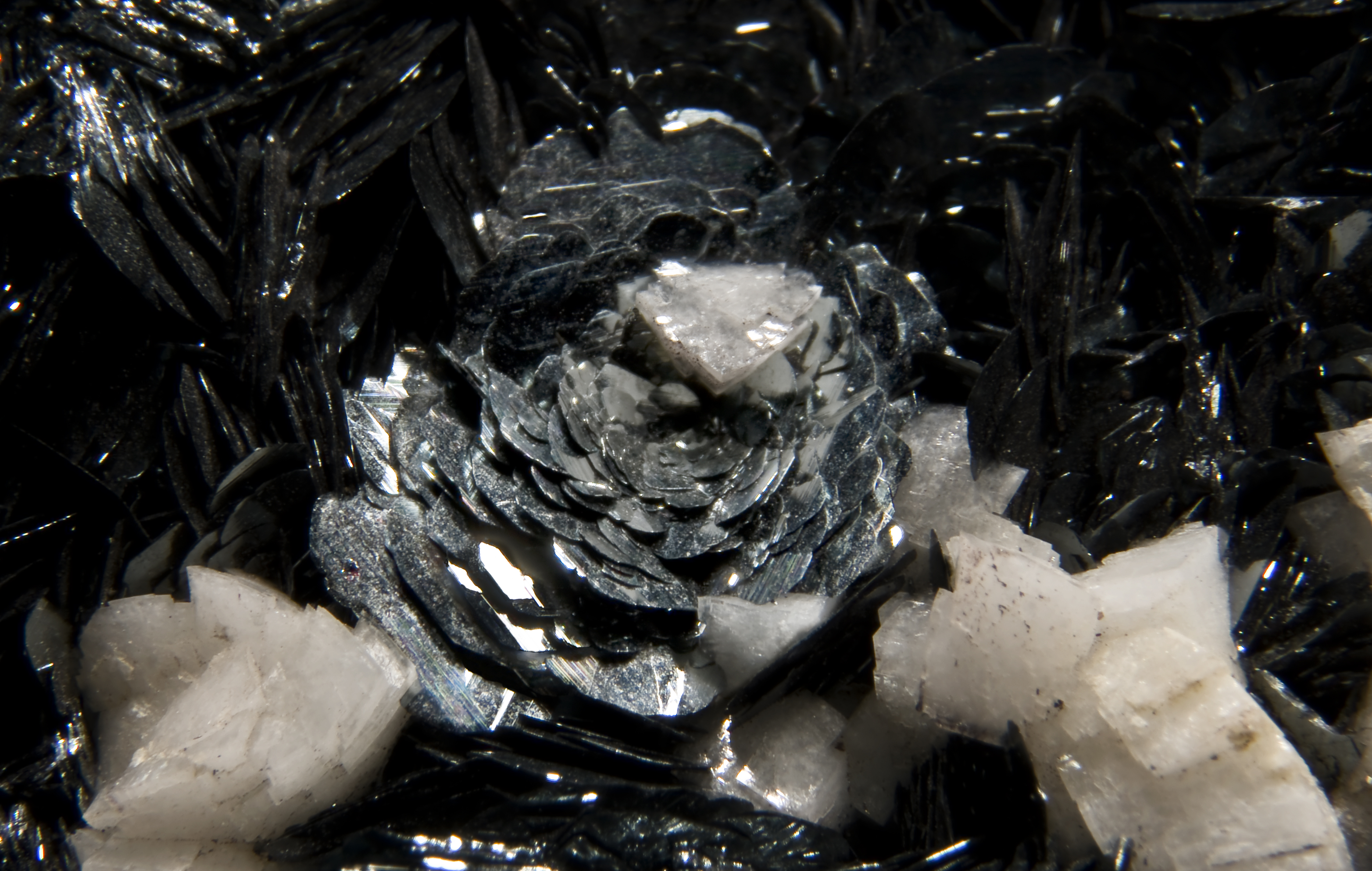 Hematite "Iron Rose" and Dolomite Locality : Batère mines, Corsavy, Arles sur Tech, Pyrénées-Orientales, Languedoc-Roussillon, France Size : (View 1.5cm)